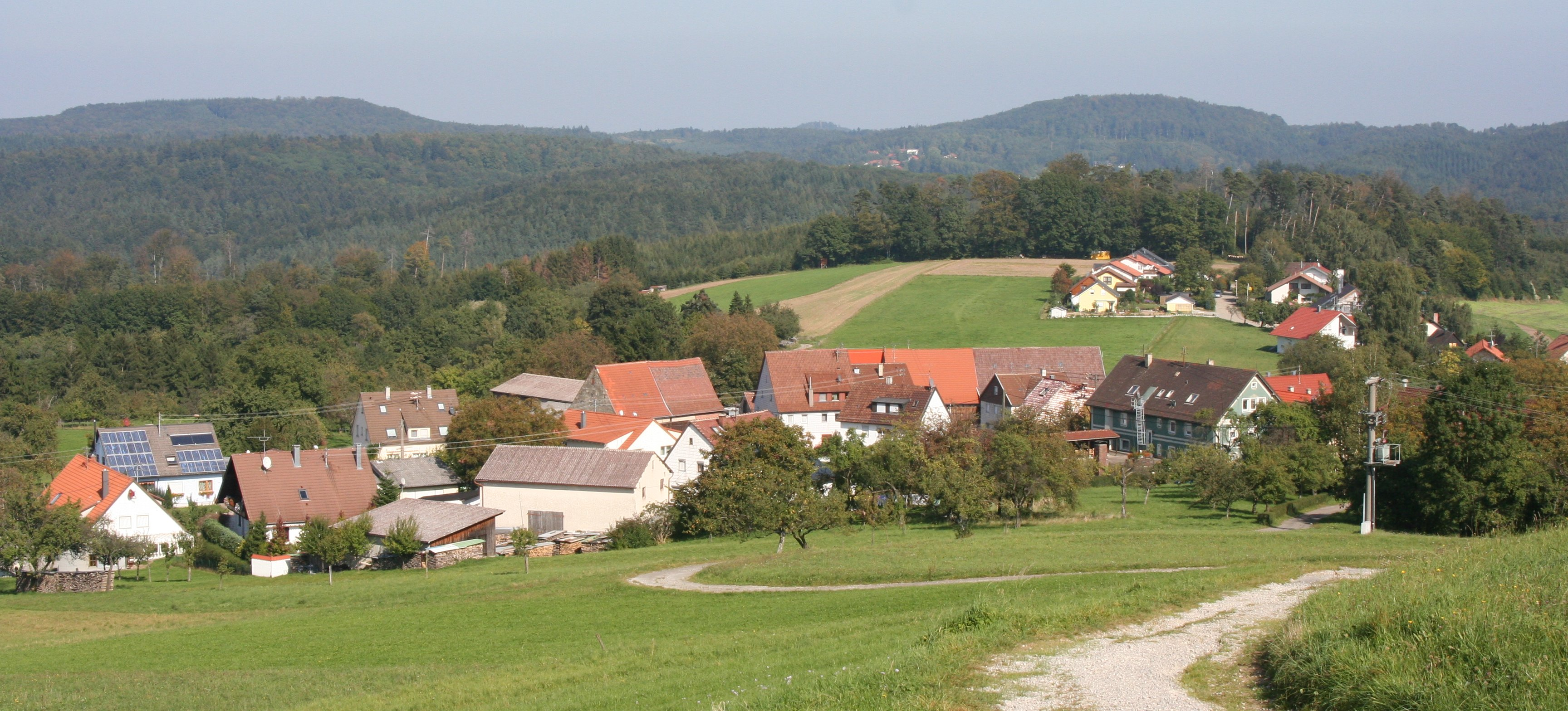 The village Stocksberg in Beilstein